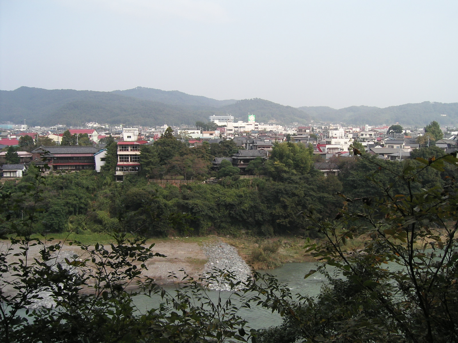 Arakawa River,the view from the Honmaru'trace of Hachigata-Jou(Castle) in Yorii-Machi,Saitama pref.,Japan 鉢形城本丸跡から見た荒川（埼玉県寄居町）